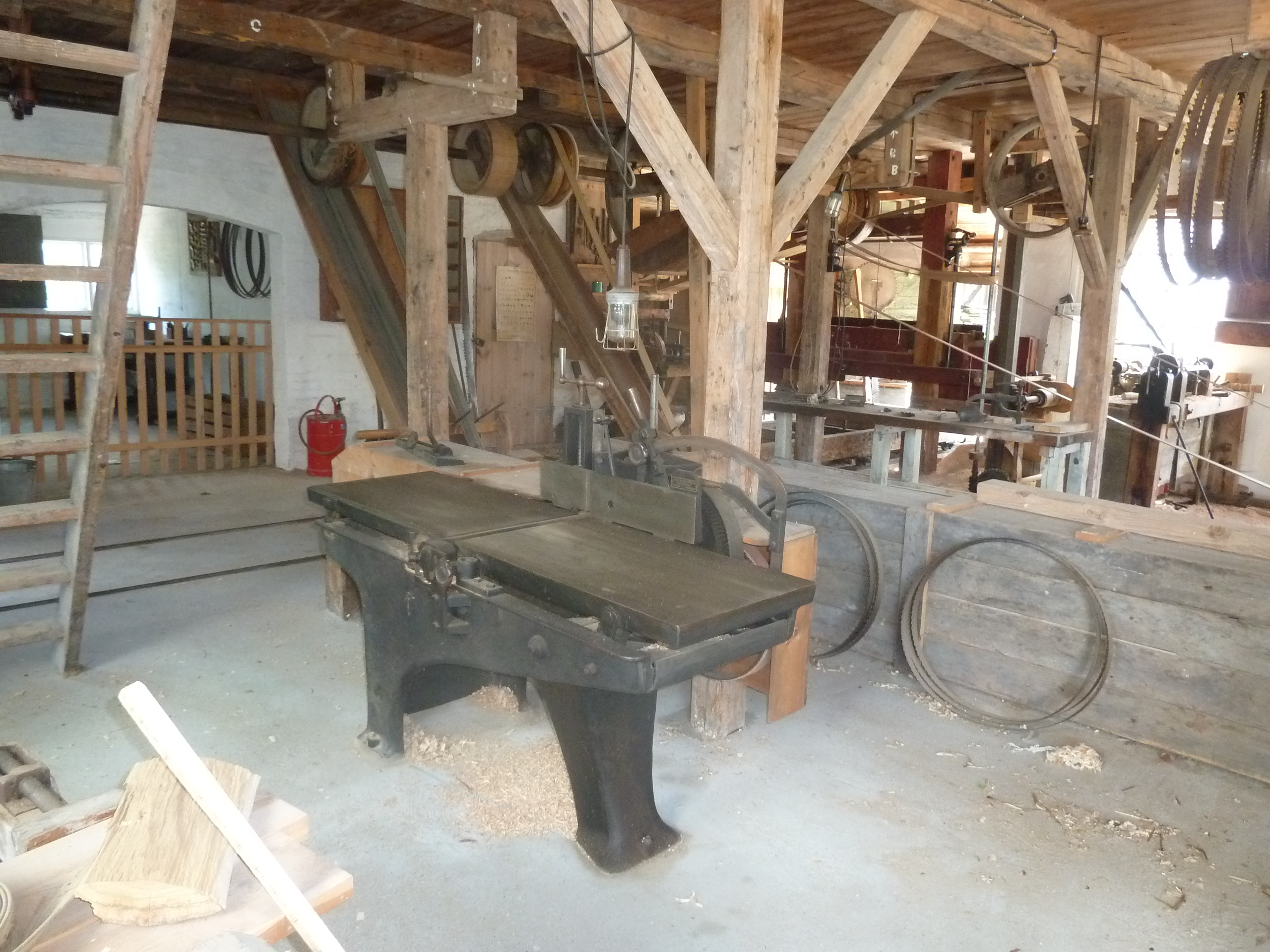 Carpenter workshop from Borre, Møn, now on Frilandsmuseet (the open air museum) north of Copenhagen.